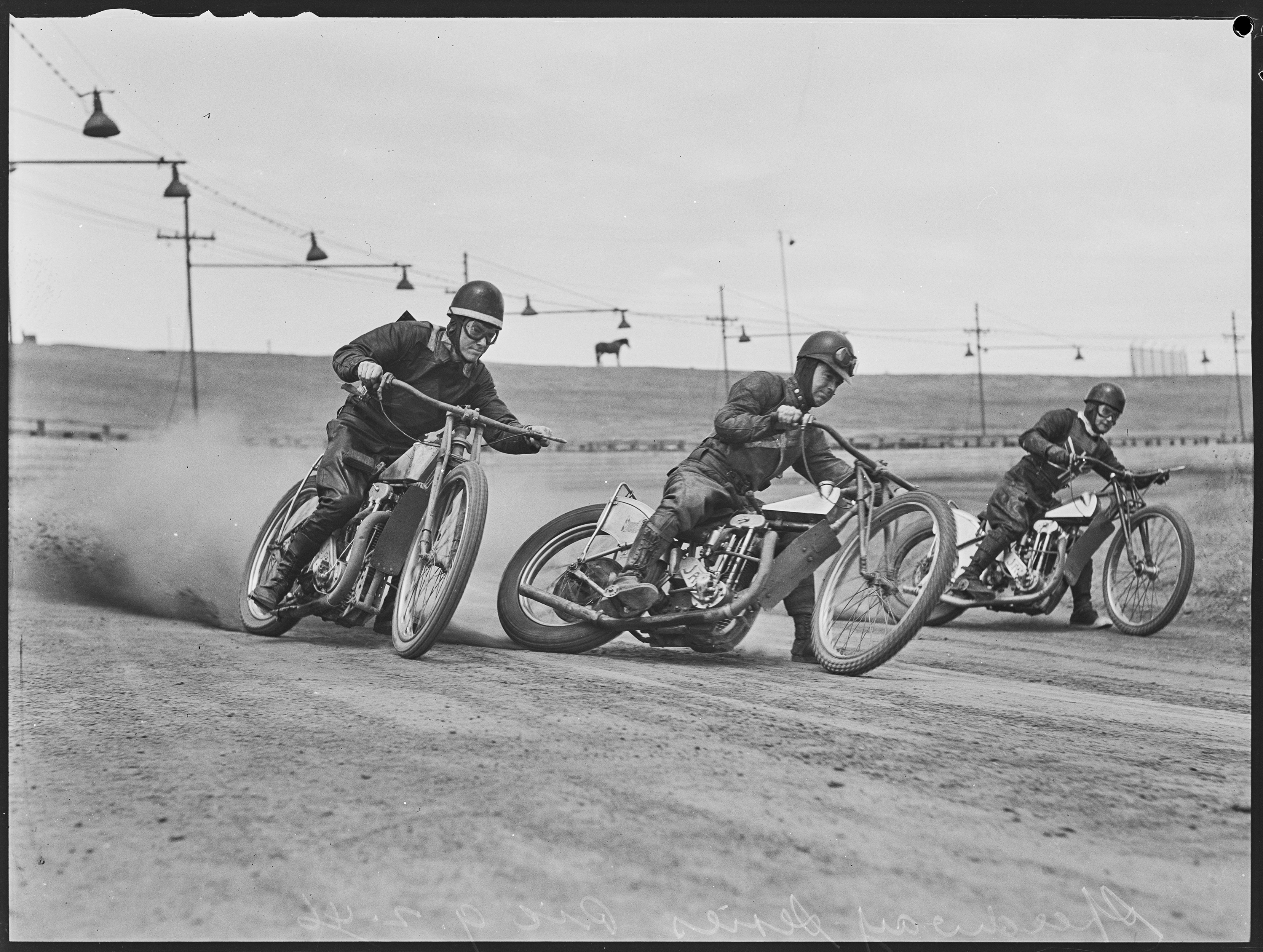 Speedway riders, Sydney, 9 February 1946, by Ray Olsen, Pix Magazine photographer, State Library of New South Wales and Courtesy ACP Magazines Ltd., ON 388/Box 014/Item 029